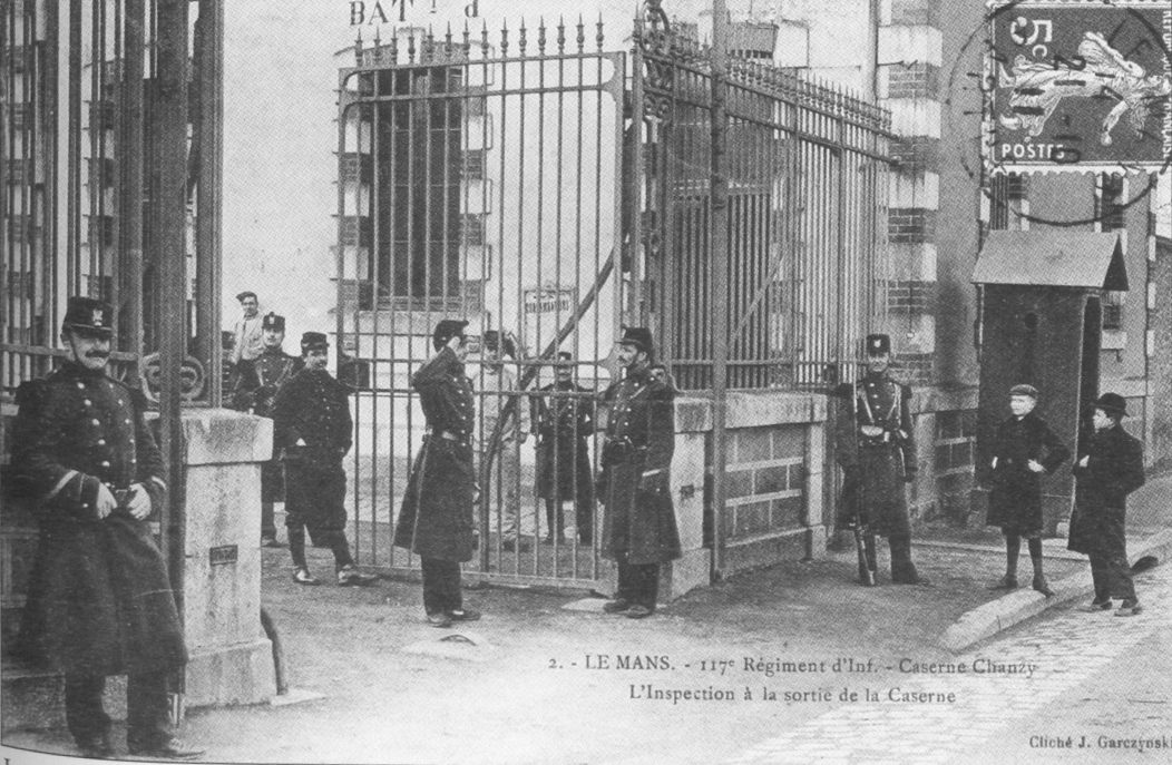 Le Mans 117 Infantry Regiment (the inspection out of the barracks)